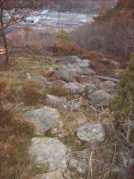 A prehistoric stronghold from the Iron Age in Lackarebäck, Mölndal, Västergötland, Sweden.